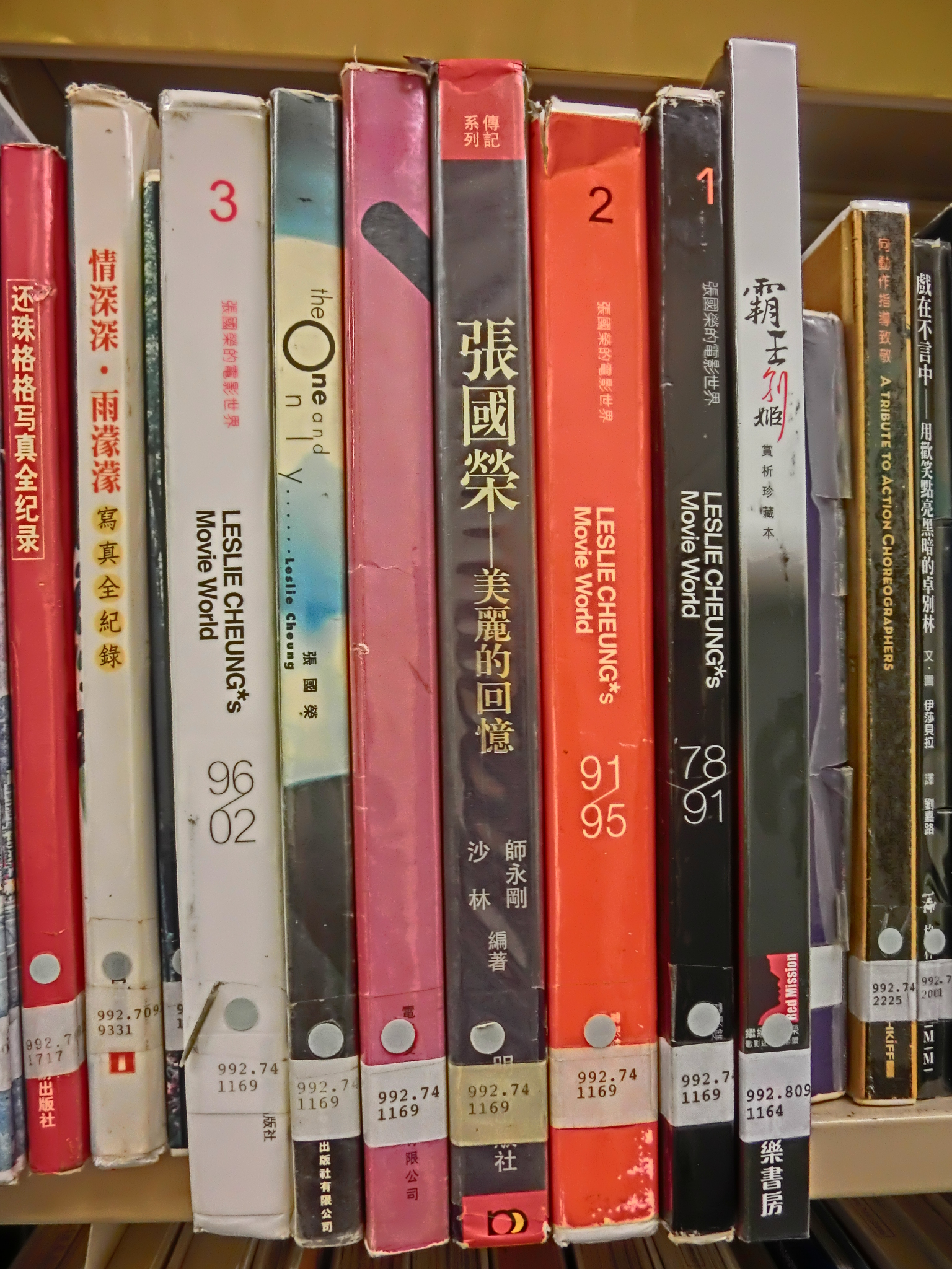 Books, Shek Tong Tsui Public Library, Hong Kong